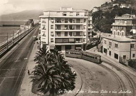 Genova Pegli, tramway terminus